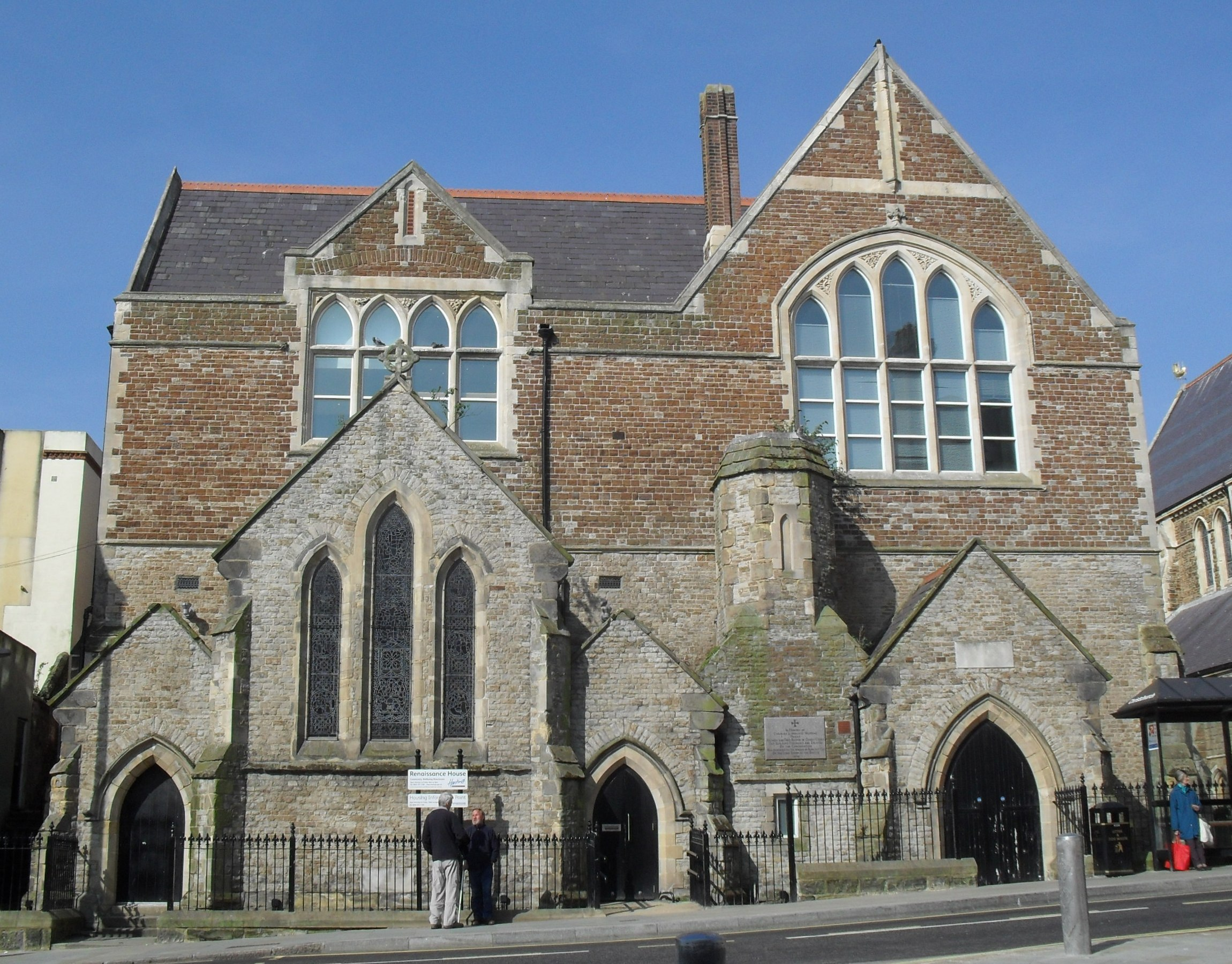 Renaissance House, London Road, St Leonards-on-Sea, Hastings, East Sussex, seen from the east. Built in 1860 as Christ Church parish church, then in 1878 replaced by the current Christ Church. In 1896 it was rebuilt and enlarged to form part of a Church of England school. It is now in secular use.